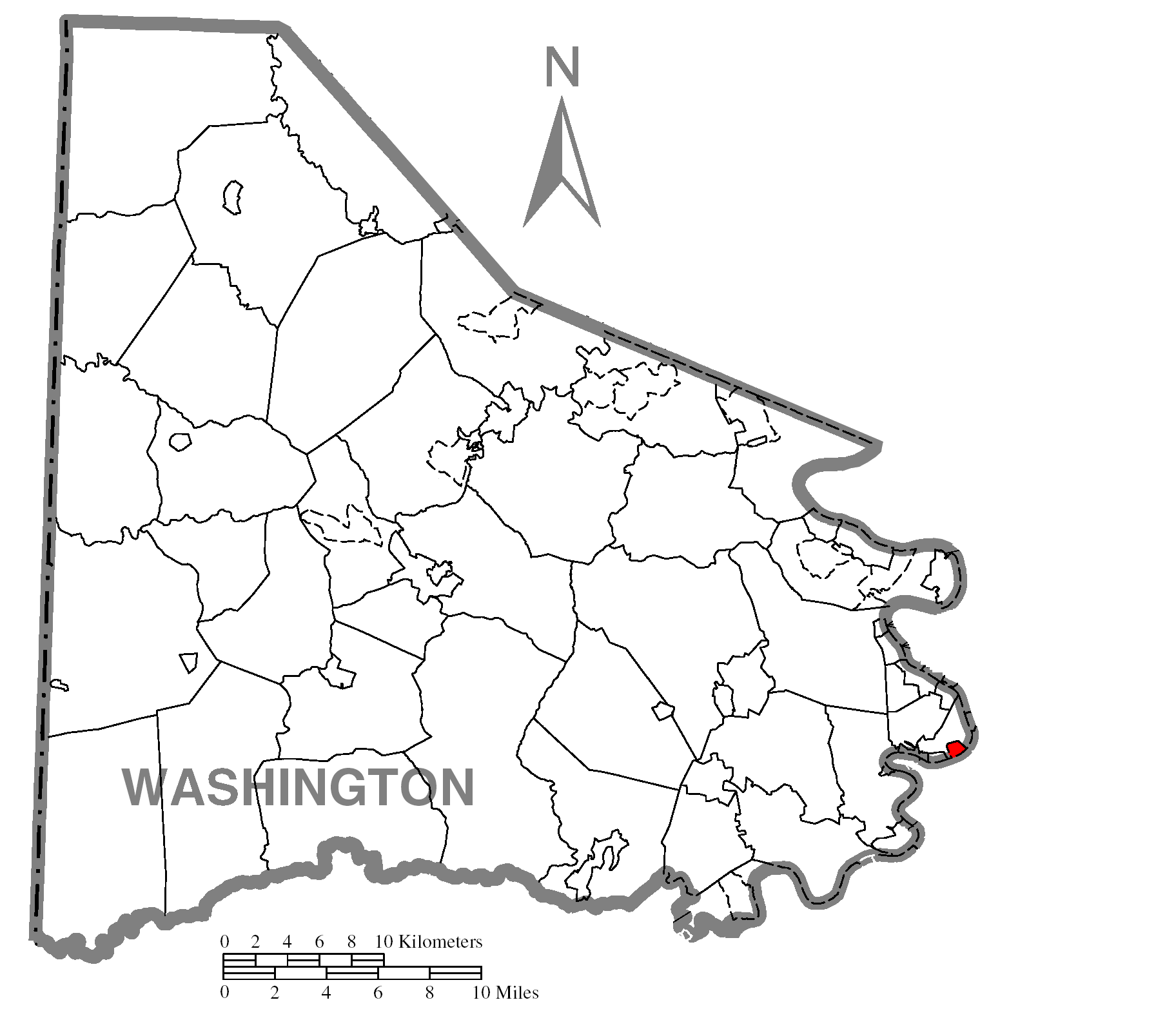 Map of Washington County higlighting Stockdale.